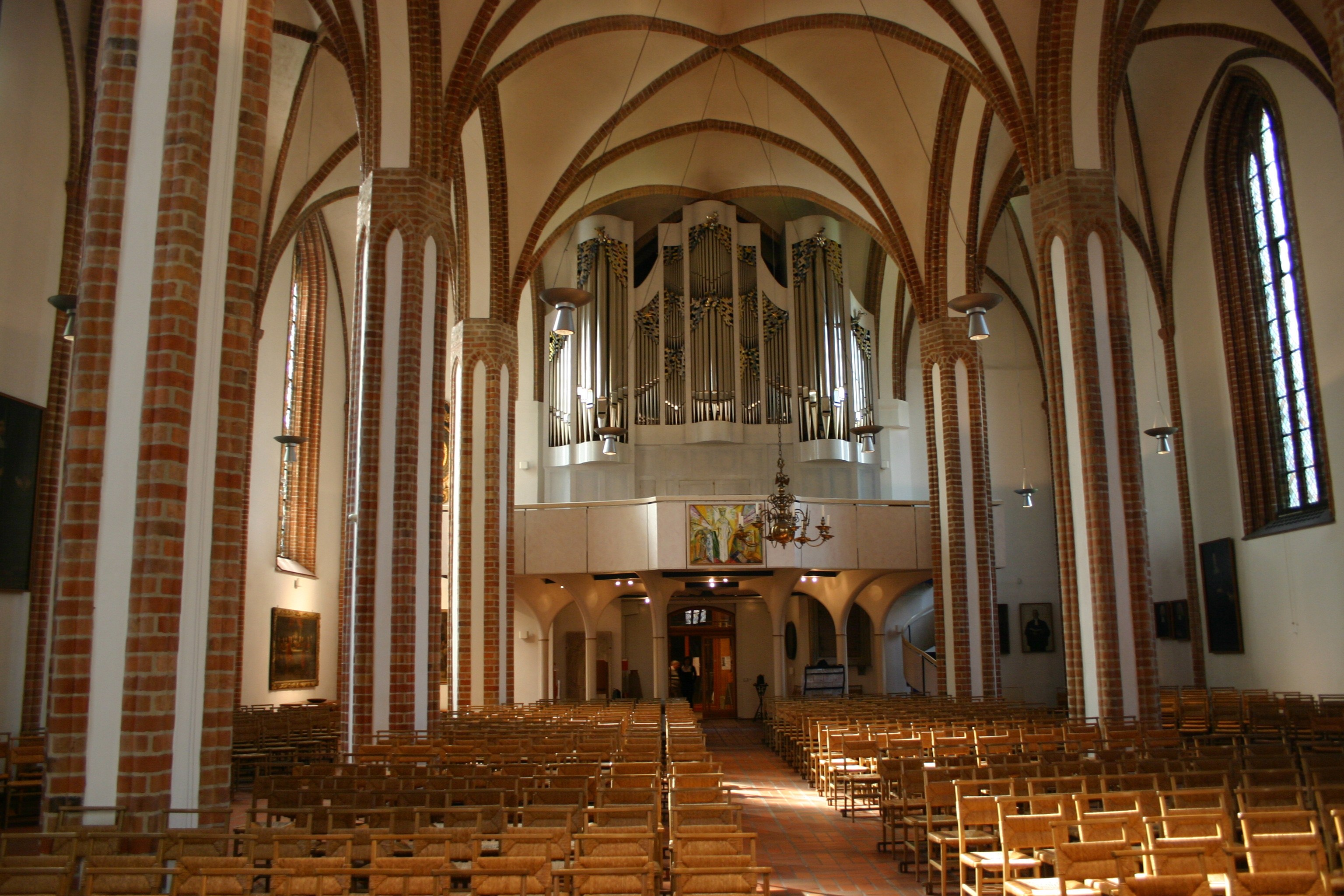 Inside view with organ of St. Nicholas in Berlin-Spandau